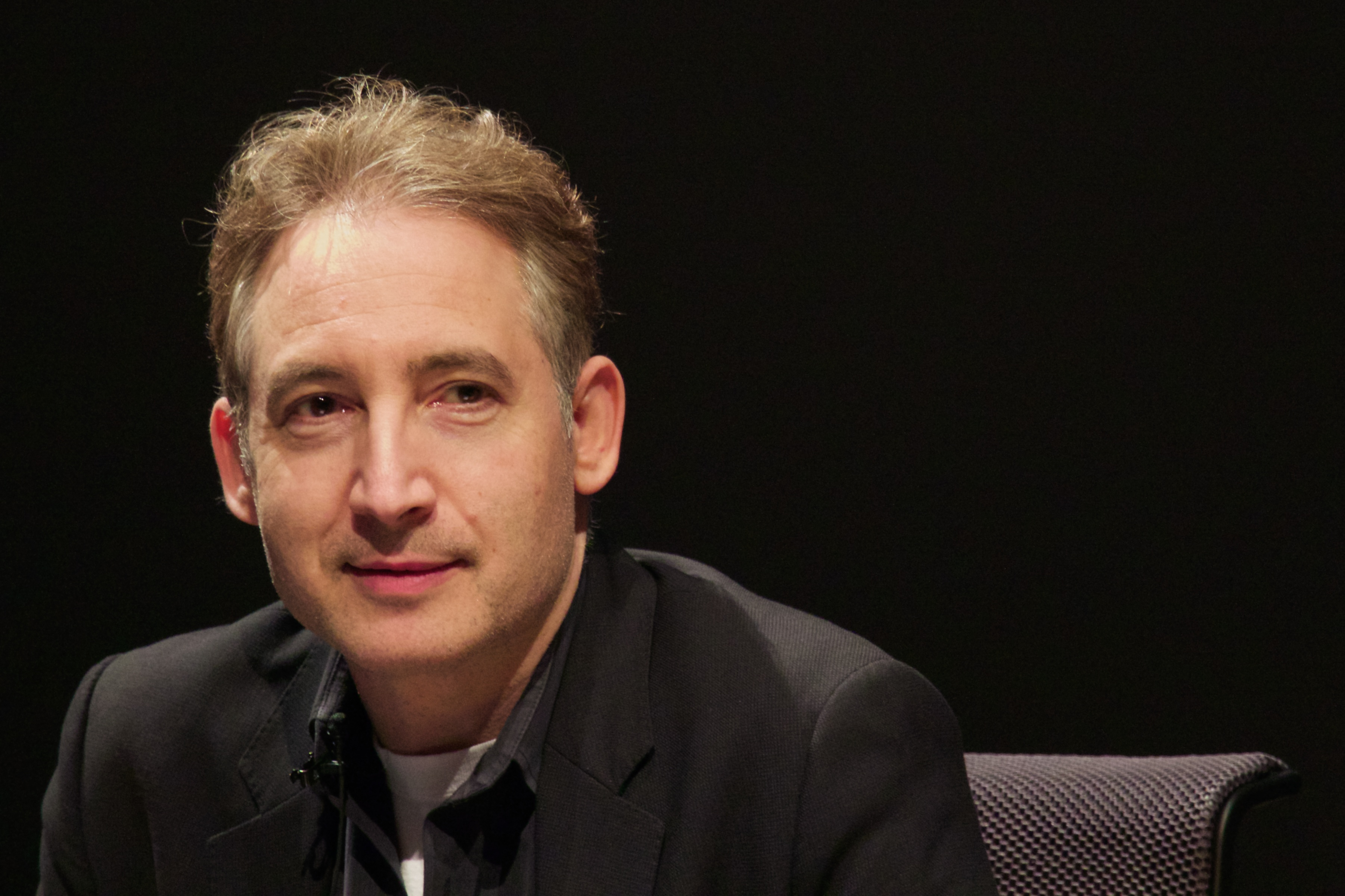 Brian Greene at the National Air and Space Museum